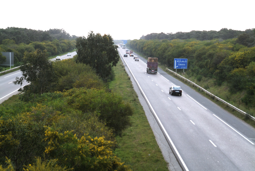 Auto Road of Morocco near Témara